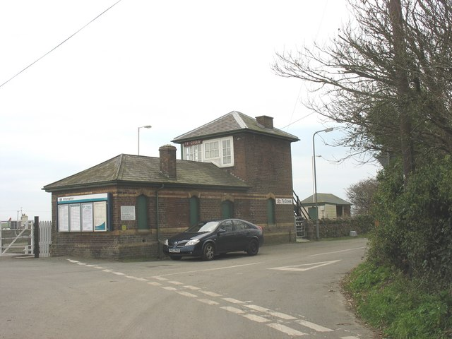 Gorsaf Ty Croes Station This station, managed by Arriva Wales, is a request stop between Bodorgan and Rhosneigr. Both platforms are in use and annually some 4000 journeys are made starting or ending at Ty Croes. It was a very busy station when R.A.Ty Croes camp was operational. The station is unmanned, but a signalman operates the signals and the crossing gates.